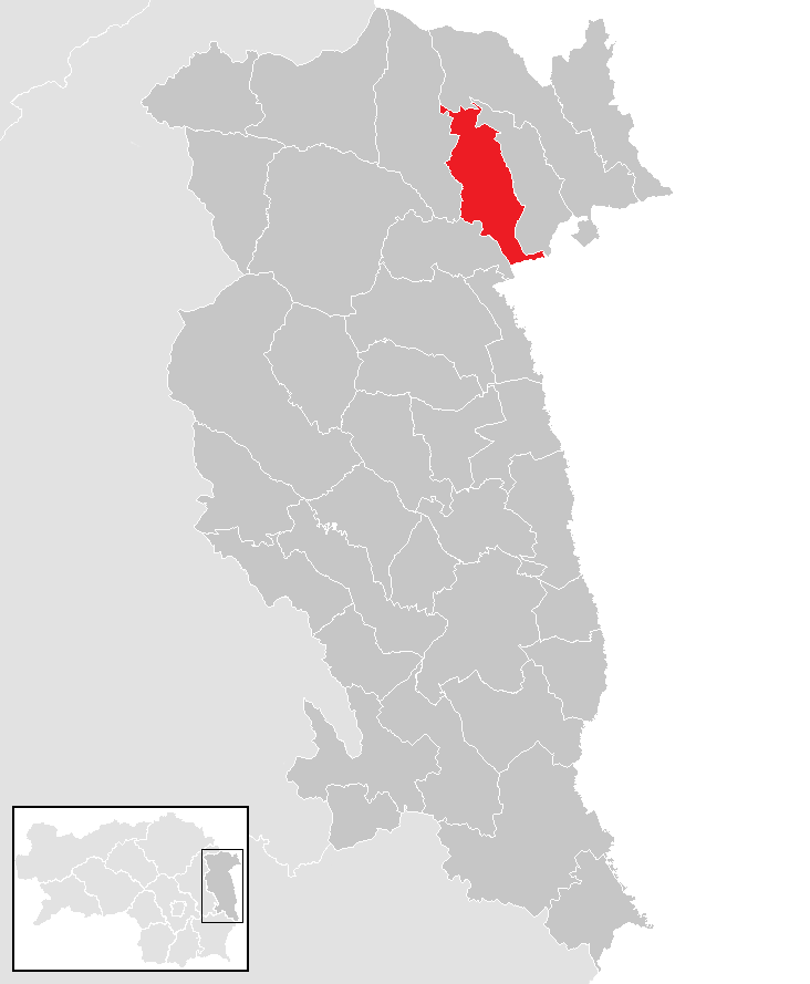 district Hartberg-Fürstenfeld